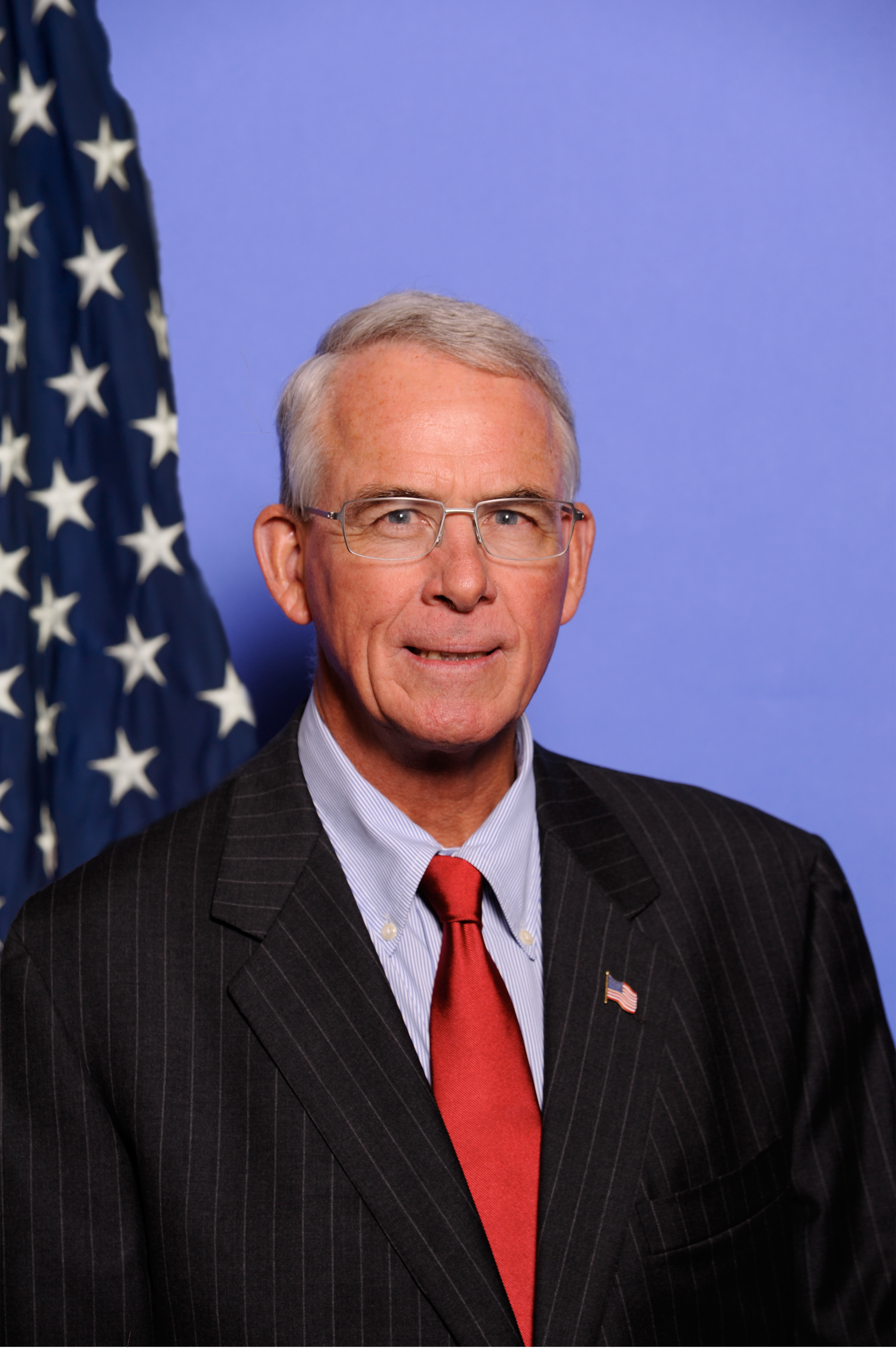 Congressman Francis Rooney (FL-19)